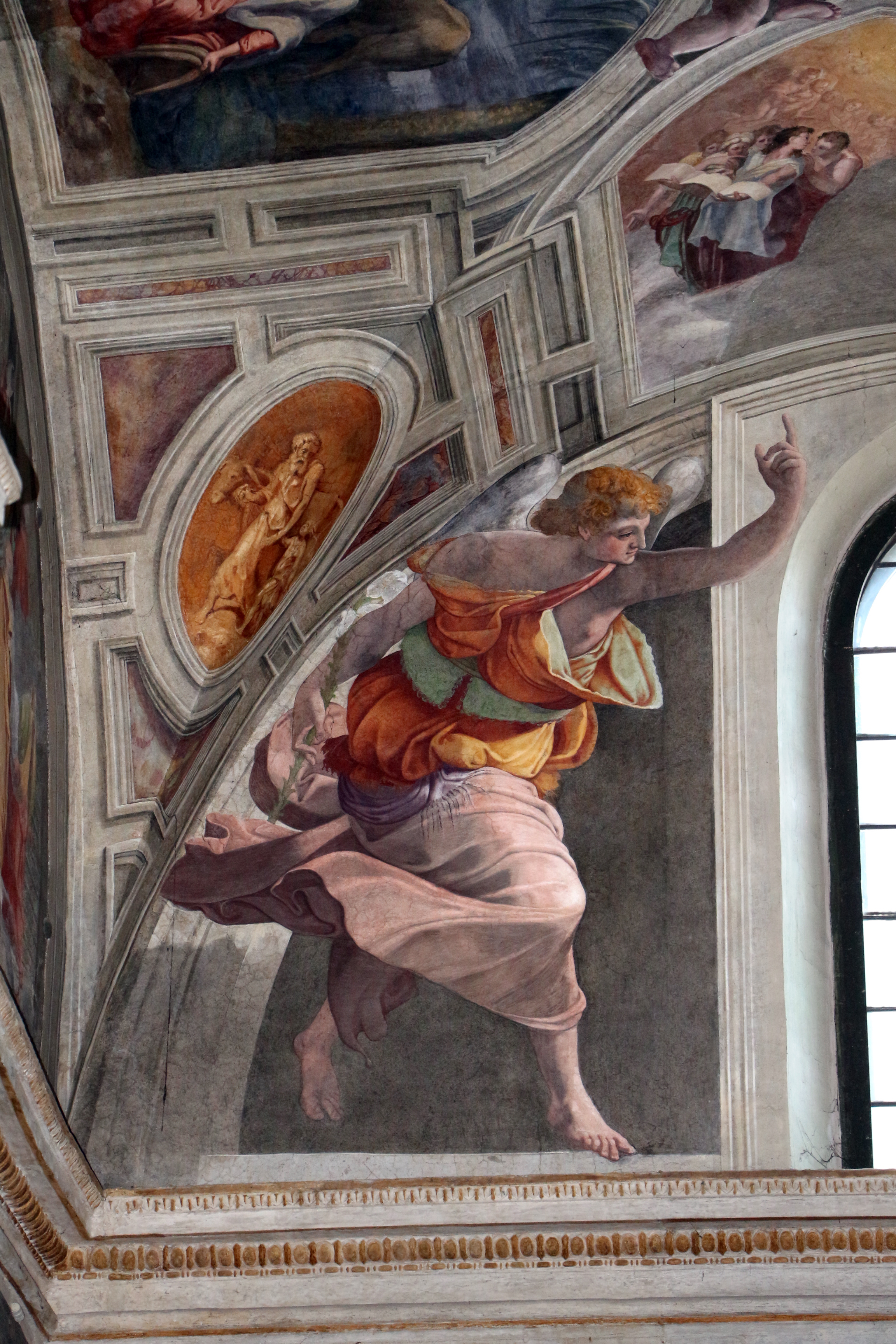 Annunciation by Giovanni Paolo Rossetti